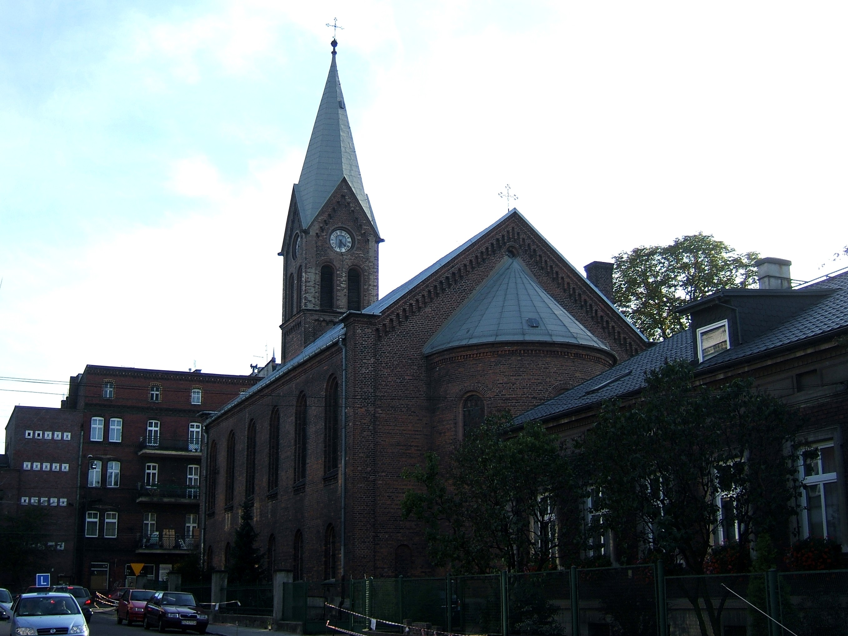 The protestant church of peace in Zabrze.